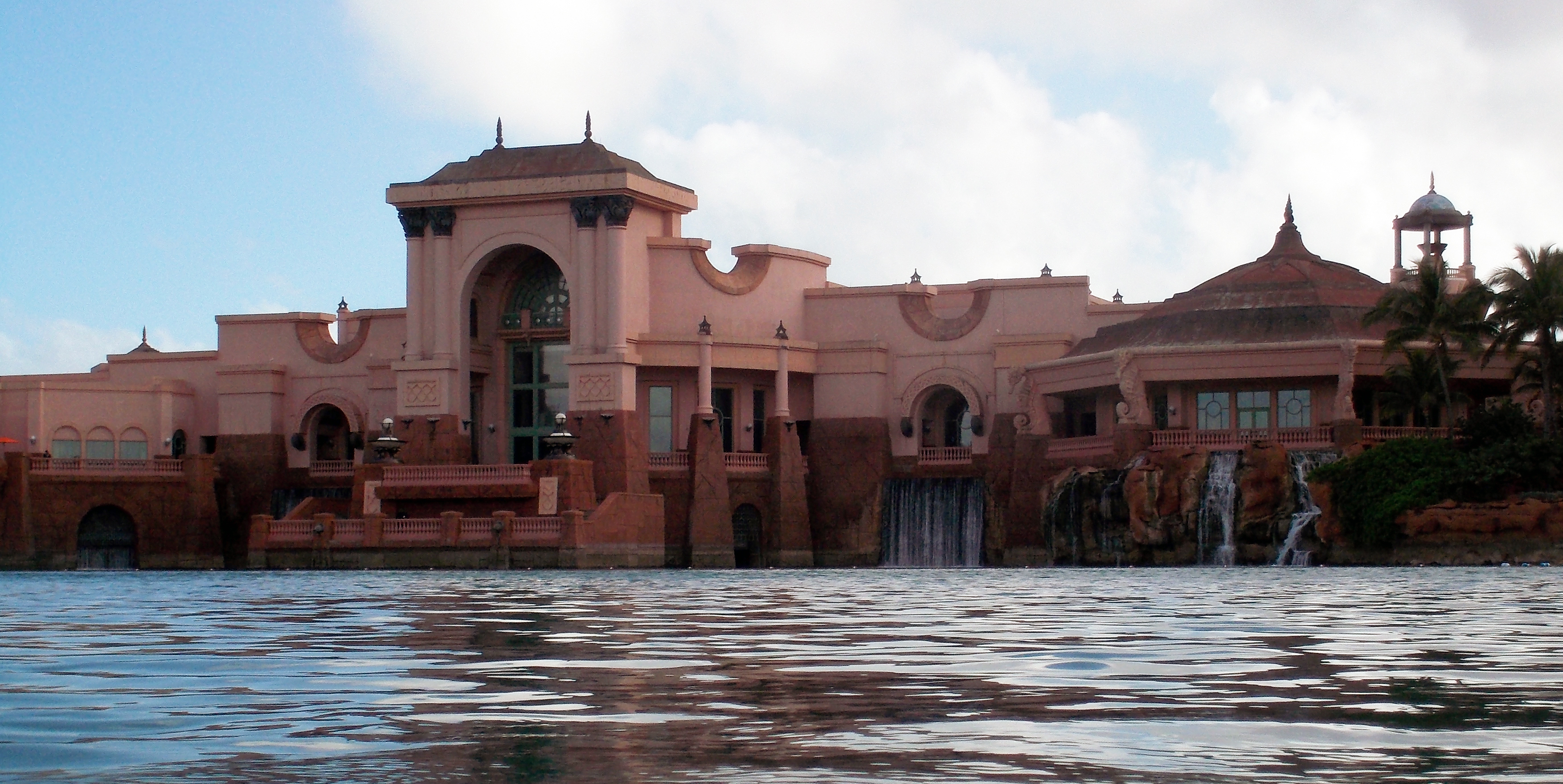 Casino waterfalls Atlantis Paradise Island photo D Ramey Logan